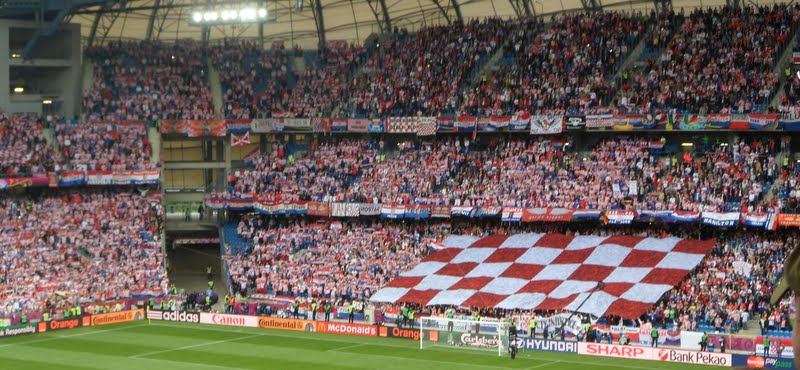 Match Italy vs Croatia in Poznań at Euro 2012